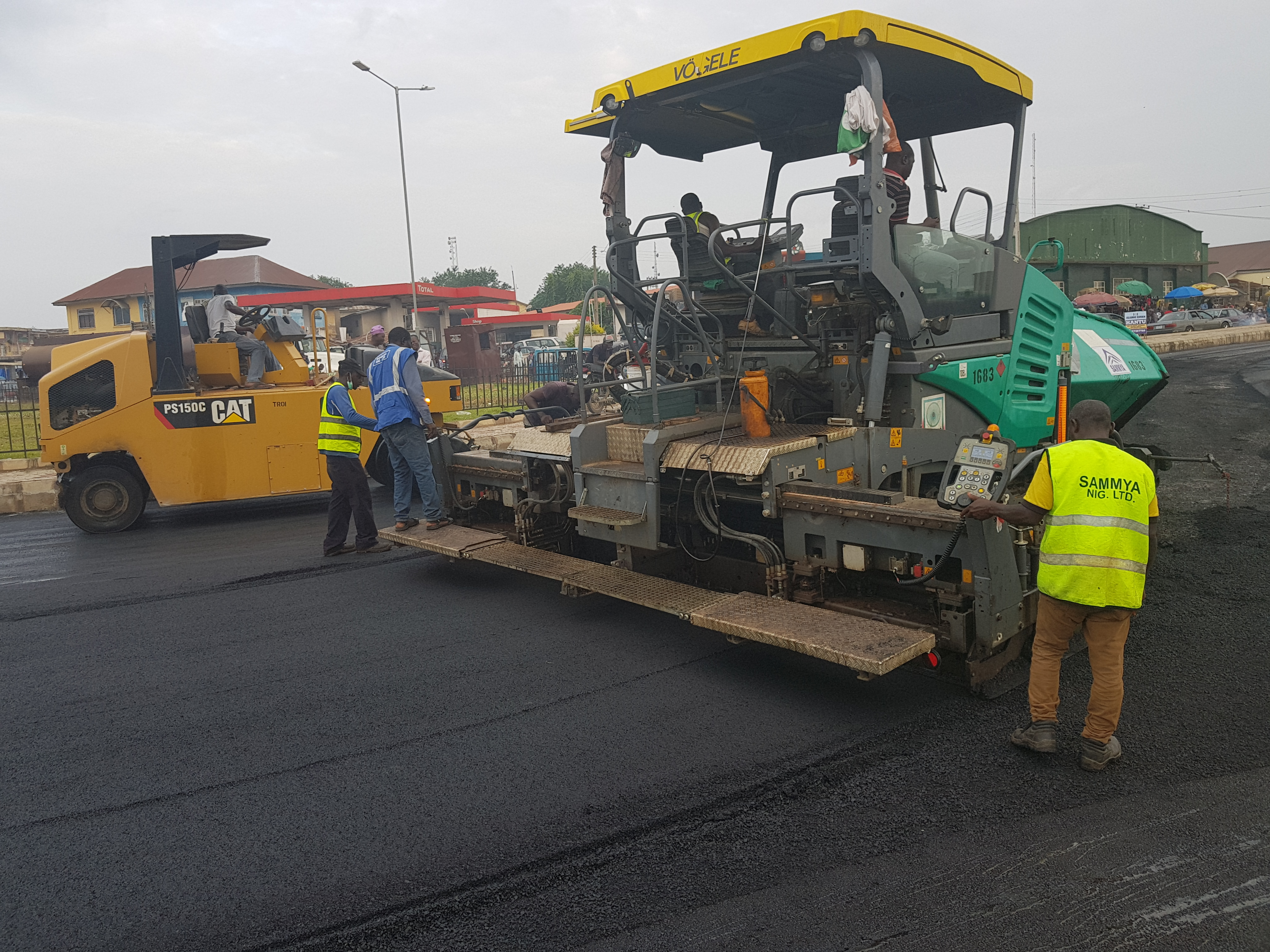 Laying Asphalt This is an image of "African people at work" from Nigeria